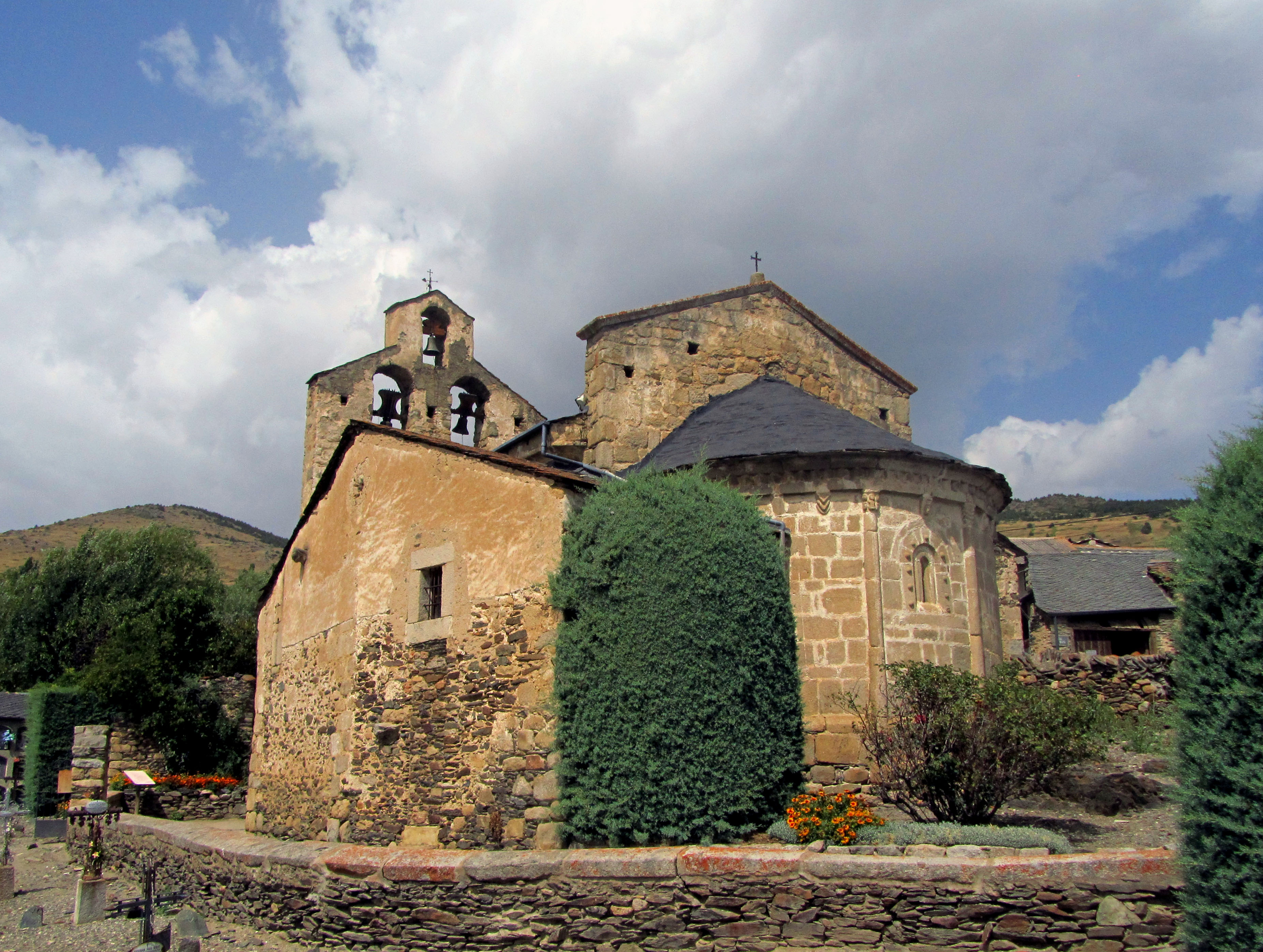 Sant Esteve de Guils church from Cerdanya (Catalonia, Spain) S.XII